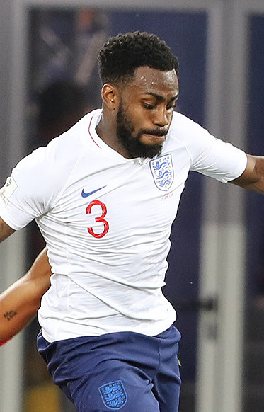 Danny Rose playing for England against Belgium at the 2018 FIFA World Cup